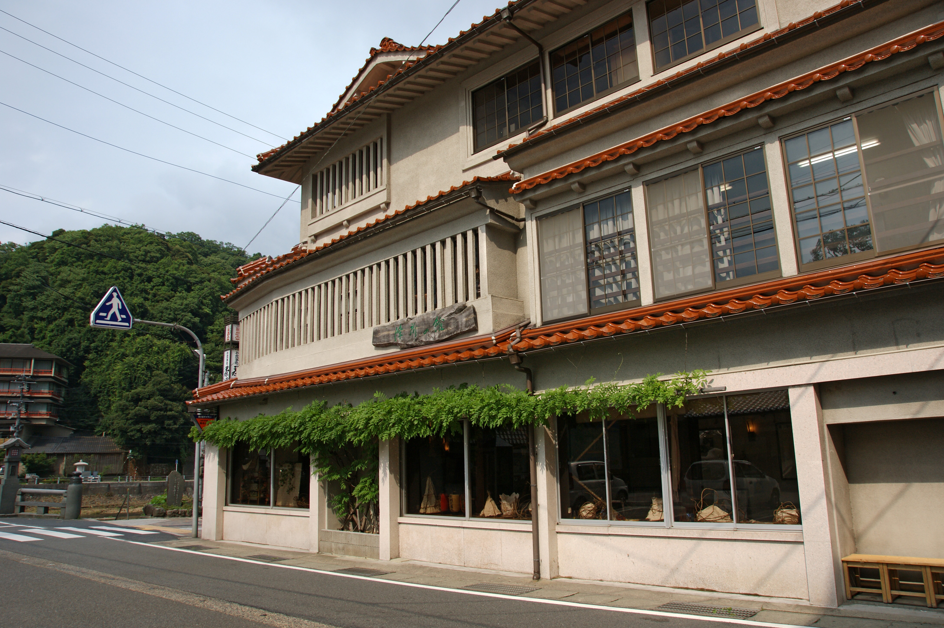 Jinsho-no-yakata in Misasa, Tottori prefecture, Japan